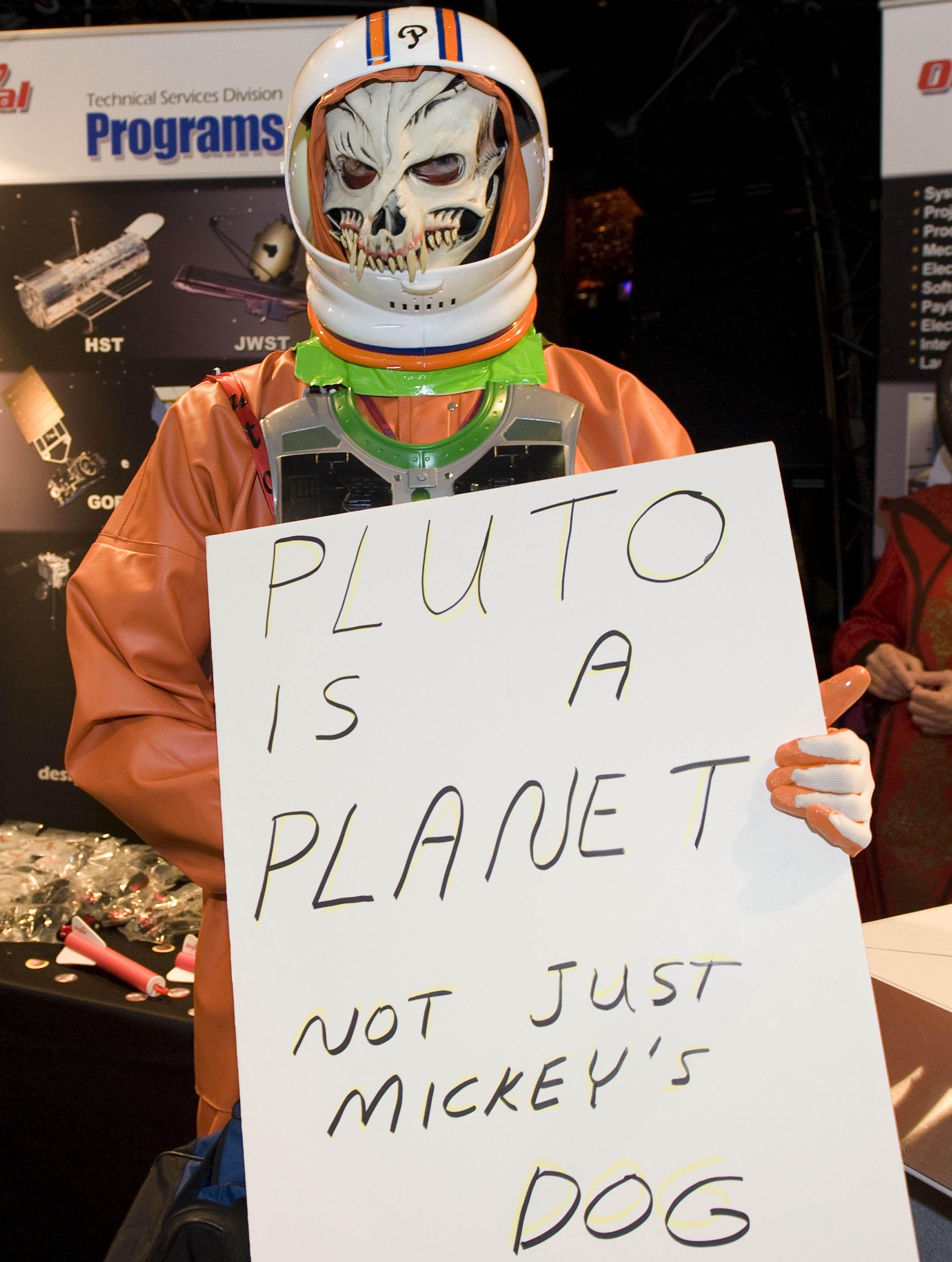 NASA image release March 11, 2010 Some 400 attended the Goddard Space Flight Center's third annual Yuri's Night party on April 10, celebrating humankind's achievements in space exploration. Guests danced to beats from DJ Scientific and live music from regional music stars Bellflur. Other activities included an "Are You Smarter Than an Astronaut?" gameshow, an intergalactic fashion show, Science On a Sphere presentations, and telescope-assisted stargazing in Goddard's Rocket Garden. Special guests included retired astronaut Roger Crouch and some 20 characters from the Star Wars universe, including Imperial officers, stormtroopers, Jedi, Naboo security, Tusken raiders, a Jawa, Boba Fett, Princess Leia, Darth Vader and R2-D2. Credit: NASA/GSFC/Bill Hrybyk To see more photos go to: NASA Goddard Space Flight Center is home to the nation's largest organization of combined scientists, engineers and technologists that build spacecraft, instruments and new technology to study the Earth, the sun, our solar system, and the universe.